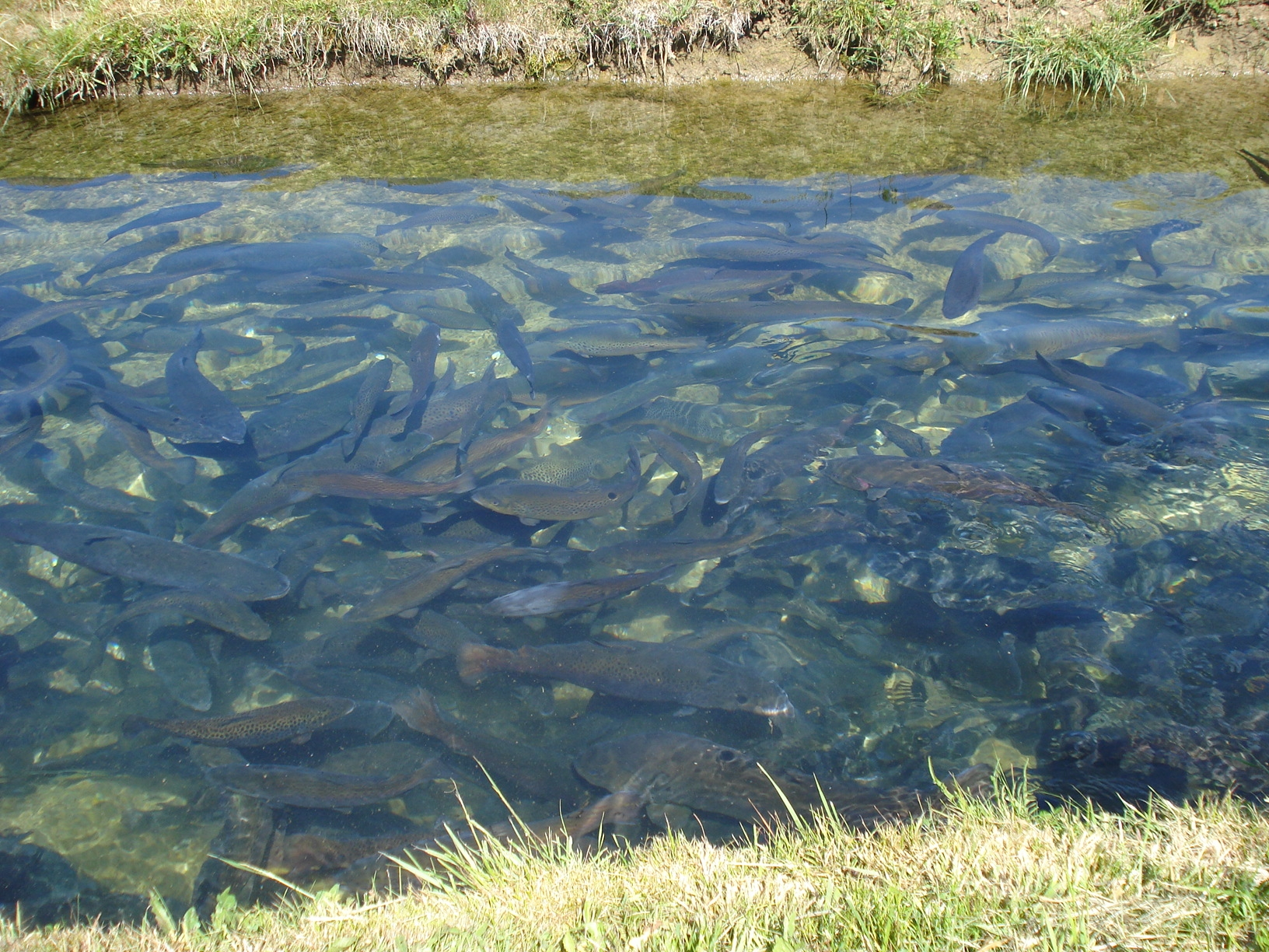 Gacka river valley (Croatia) - trouts in the fish farm in SinacHrvatski: Gacko polje (Hrvatska) - konzumne pastrve u ribogojilištu u Sincu